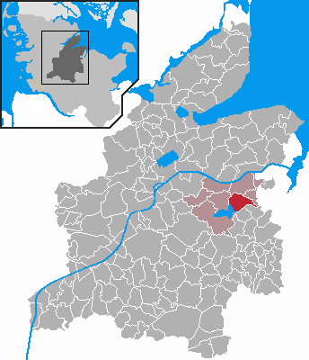 Locator maps of municipalities in Schleswig-Holstein - District Rendsburg-Eckernförde